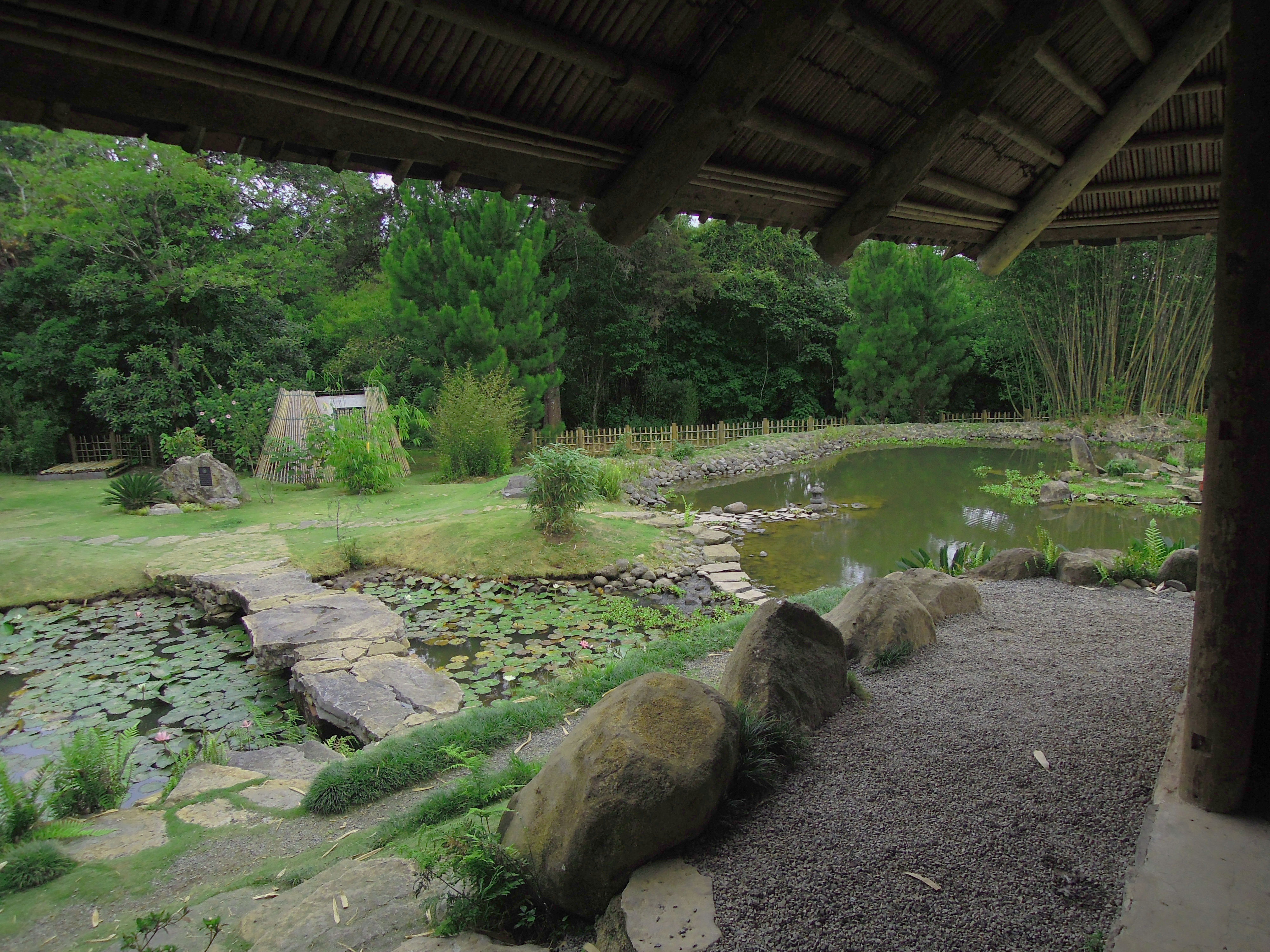 Japanese Garden at the Lankester Botanical Garden in Cartago, Costa Rica